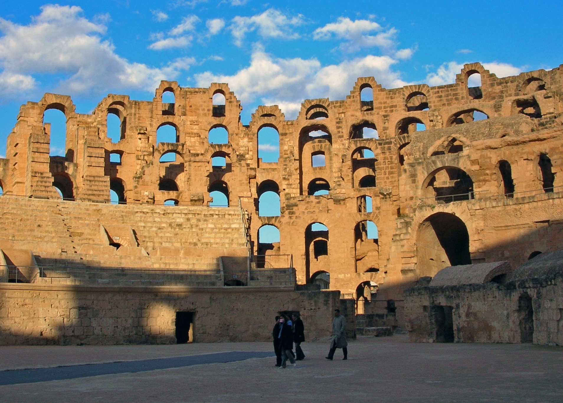 Amphitheatre of El Djem, Tunisia